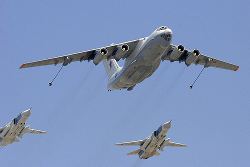 Military parade in honour of the 64th anniversary of the Victory in the Great Patriotic War.